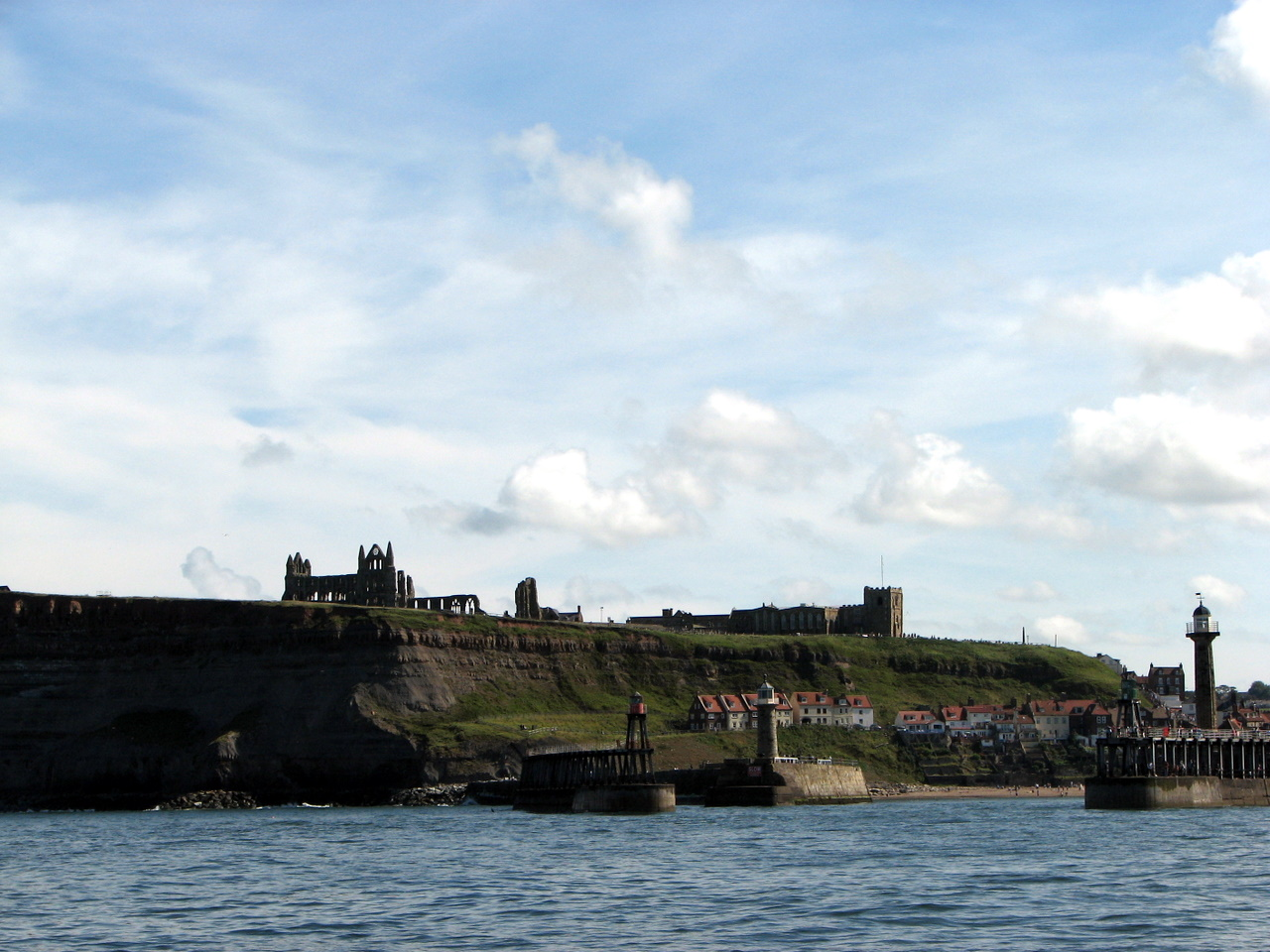 Whitby Abbey, St Mary's Church and Piers from the North Sea